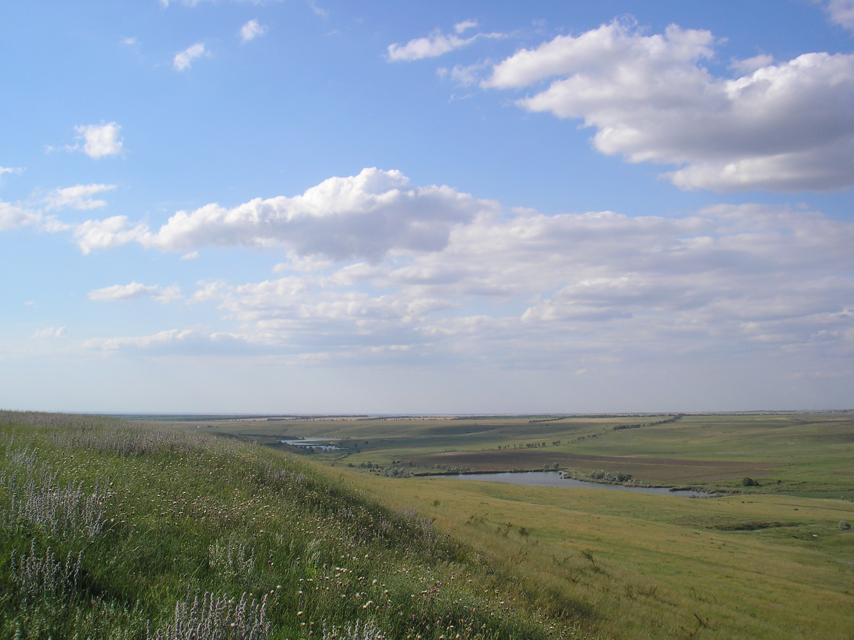 Site of the former village Yuryevka, Simferopol district, Crimea.